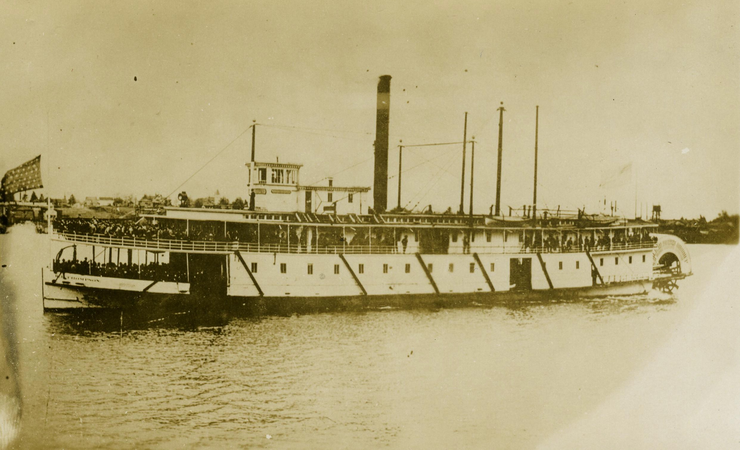 Sternwheeler R.R. Thompson, somewhere on the Columbia or the lower Willamette Rivers. Dated at circa 1890 due to passenger deck extending to bow, which was present in 1891 but absent circa 1900.